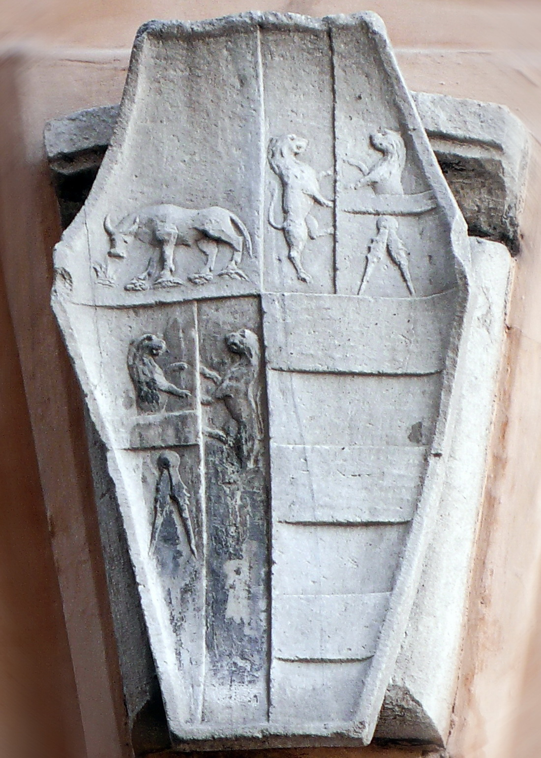 Vannozza Cattanei, Coat of Arms, Vicolo del Gallo, Rome